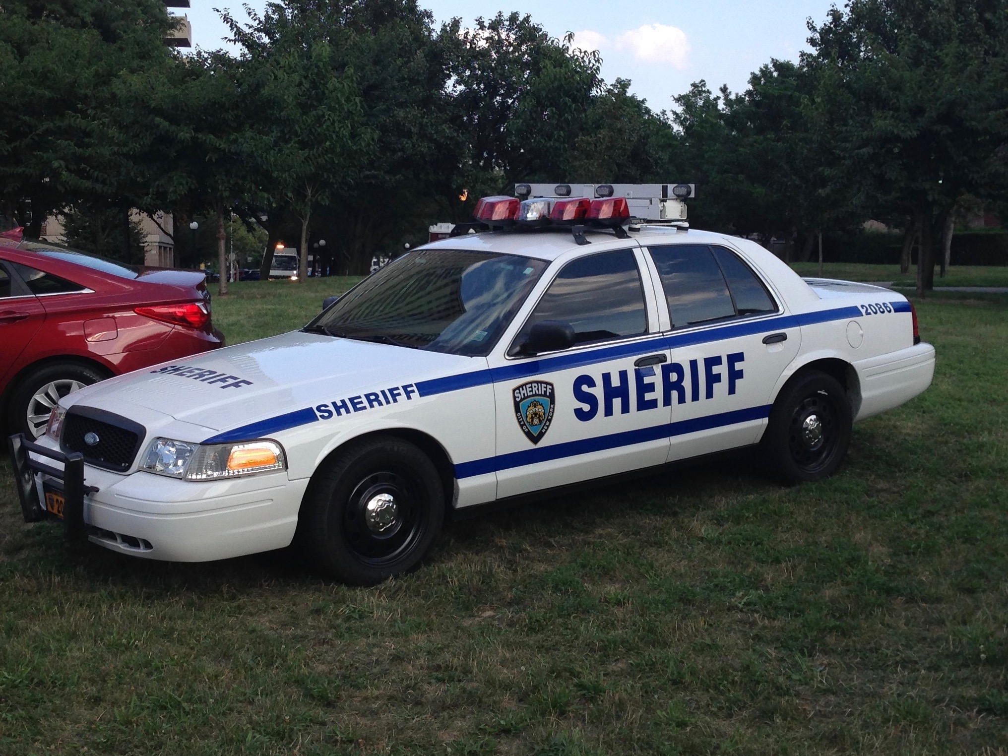 New York City Sheriff vehicle at the 2017 Co-op City National Night Out on August 1st, 2017